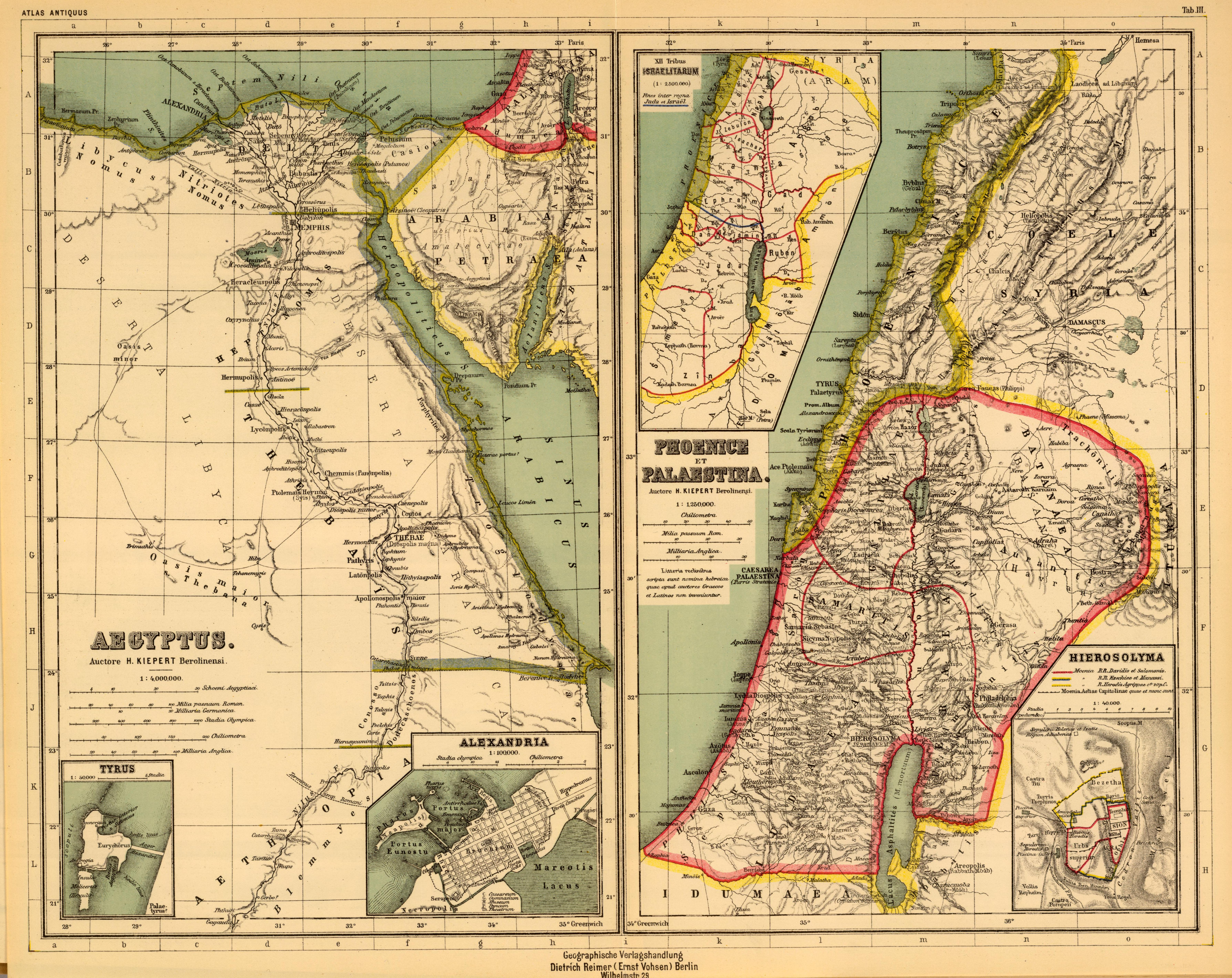 Aegyptus. Phoenice et Palaestina. (with) Tyrus. (with) Alexandria. (with) XII tribus Israelitarum. (with) Hierosolyma. Auctore H. Kiepert Berolinensi. Geographische Verlagshandlung Dietrich Reimer (Ernst Vohsen) Berlin, Wilhemlstr. 29. (1903)